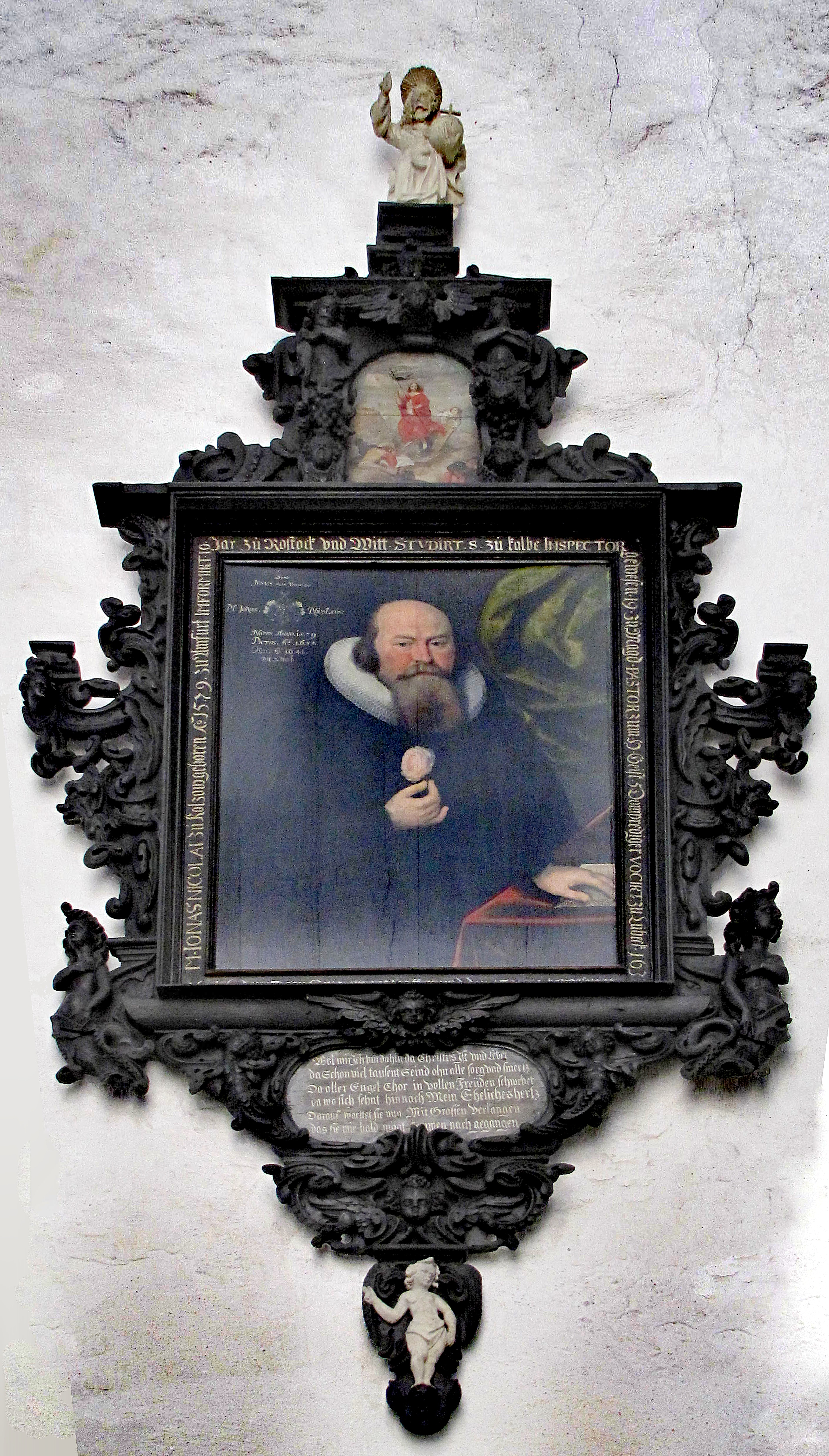 Epitaph for Pastor Jonas Nicolai